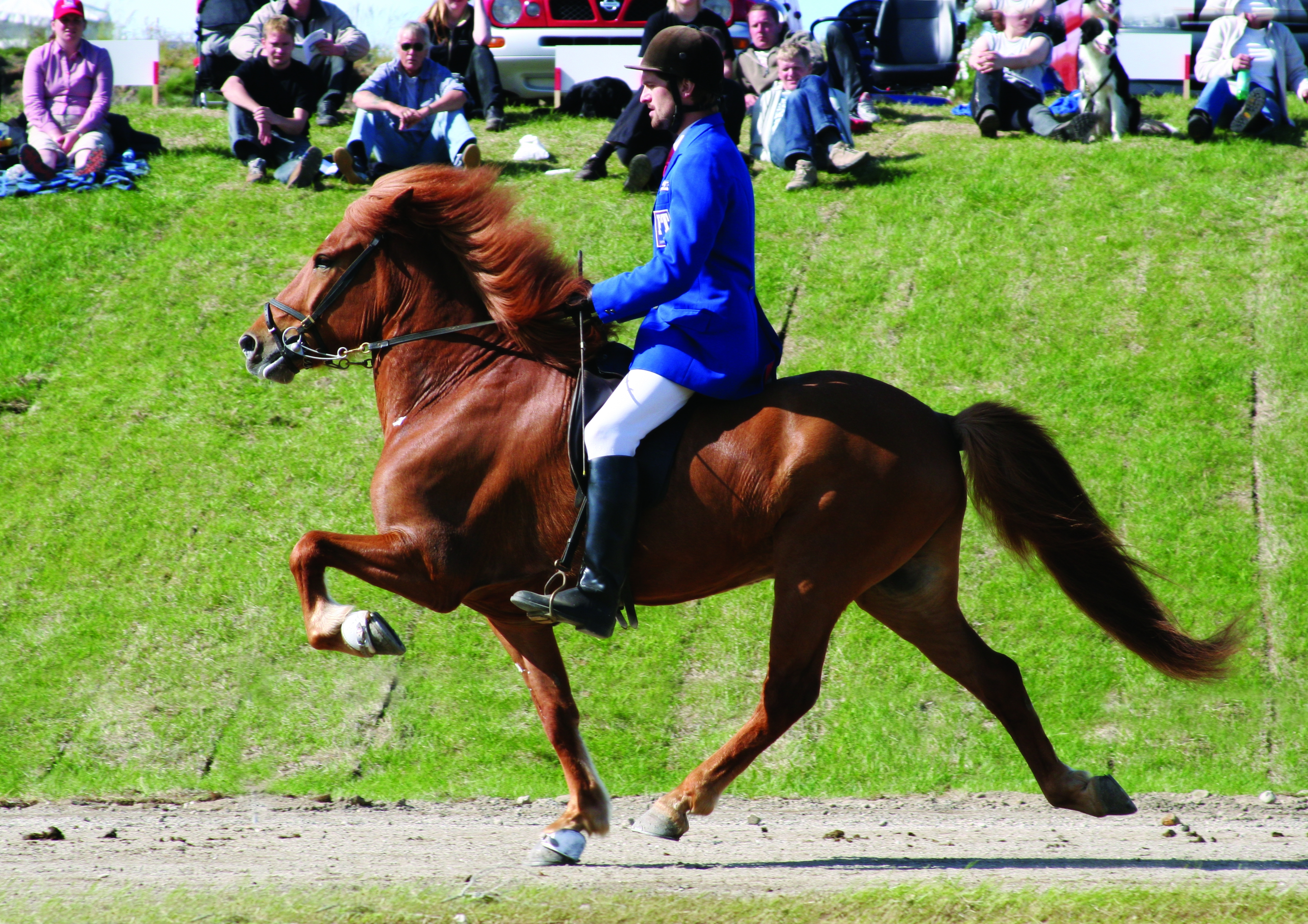 Icelandic Horse, Gammur frá Egilstöðum compeating in "Tölt" at Íslandsmót 2005